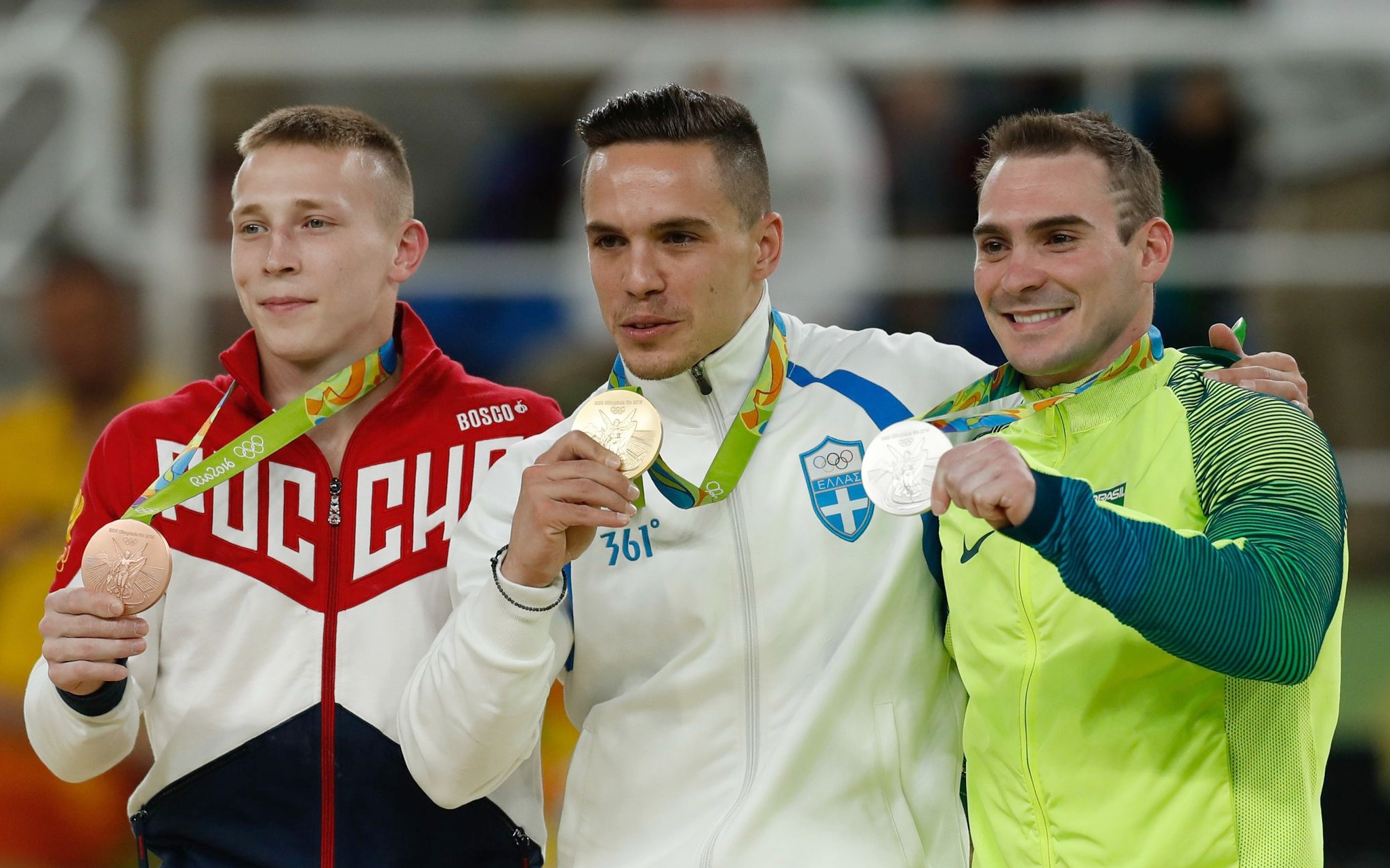 Competitions in gymnastics at the Olympics 2016. Discipline - rings.